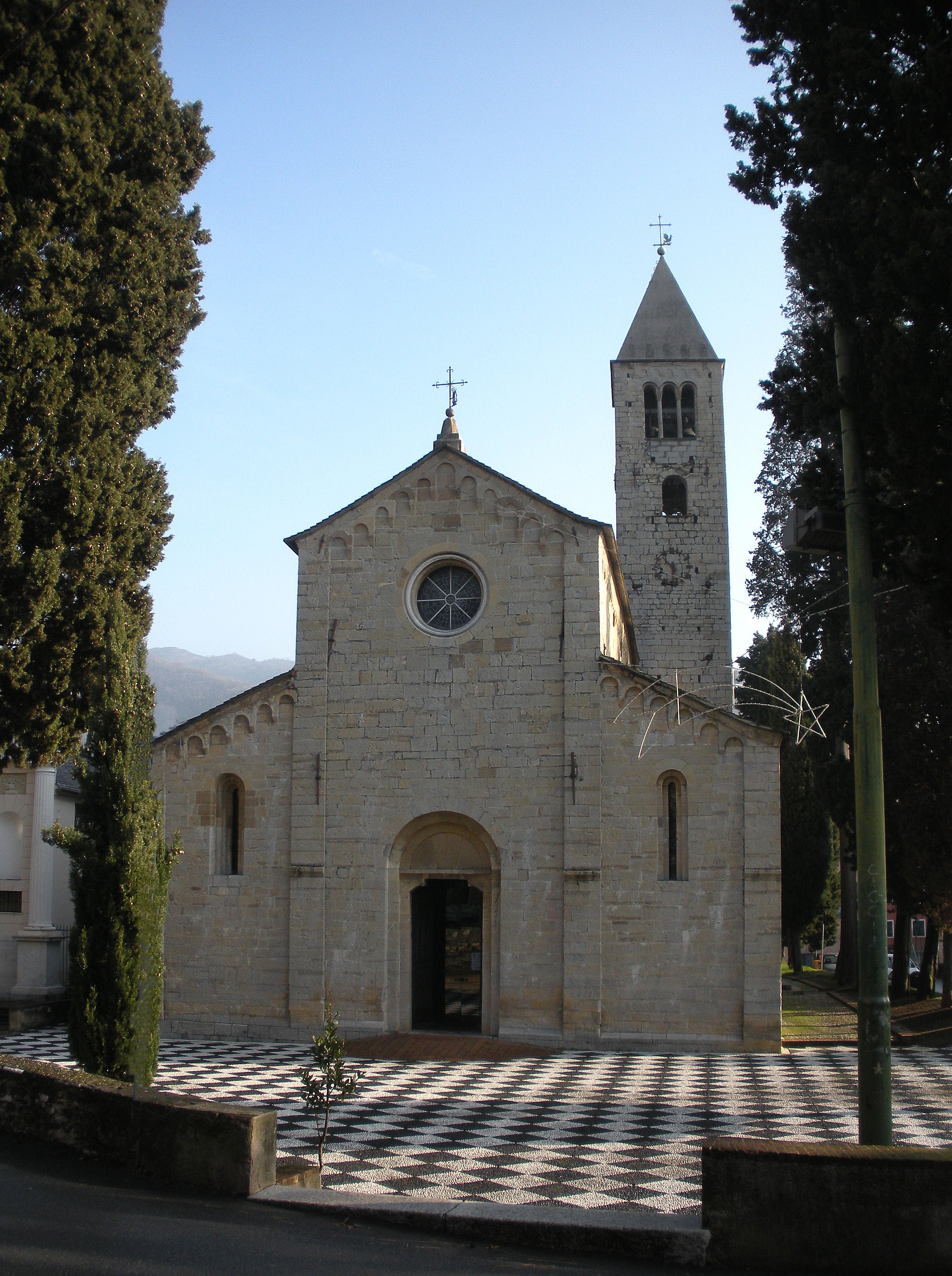 Church of St. Syrus in Struppa (quarter of Genoa, Italy)